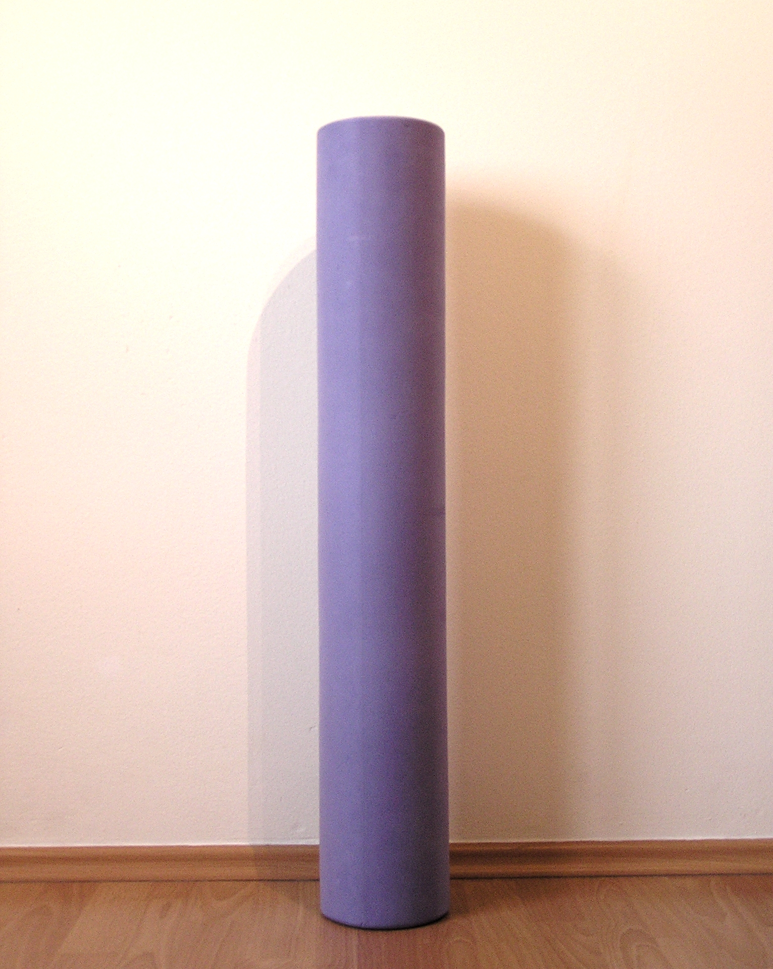 A photo of a hard foam roller or fascia roller (Foam Roller).